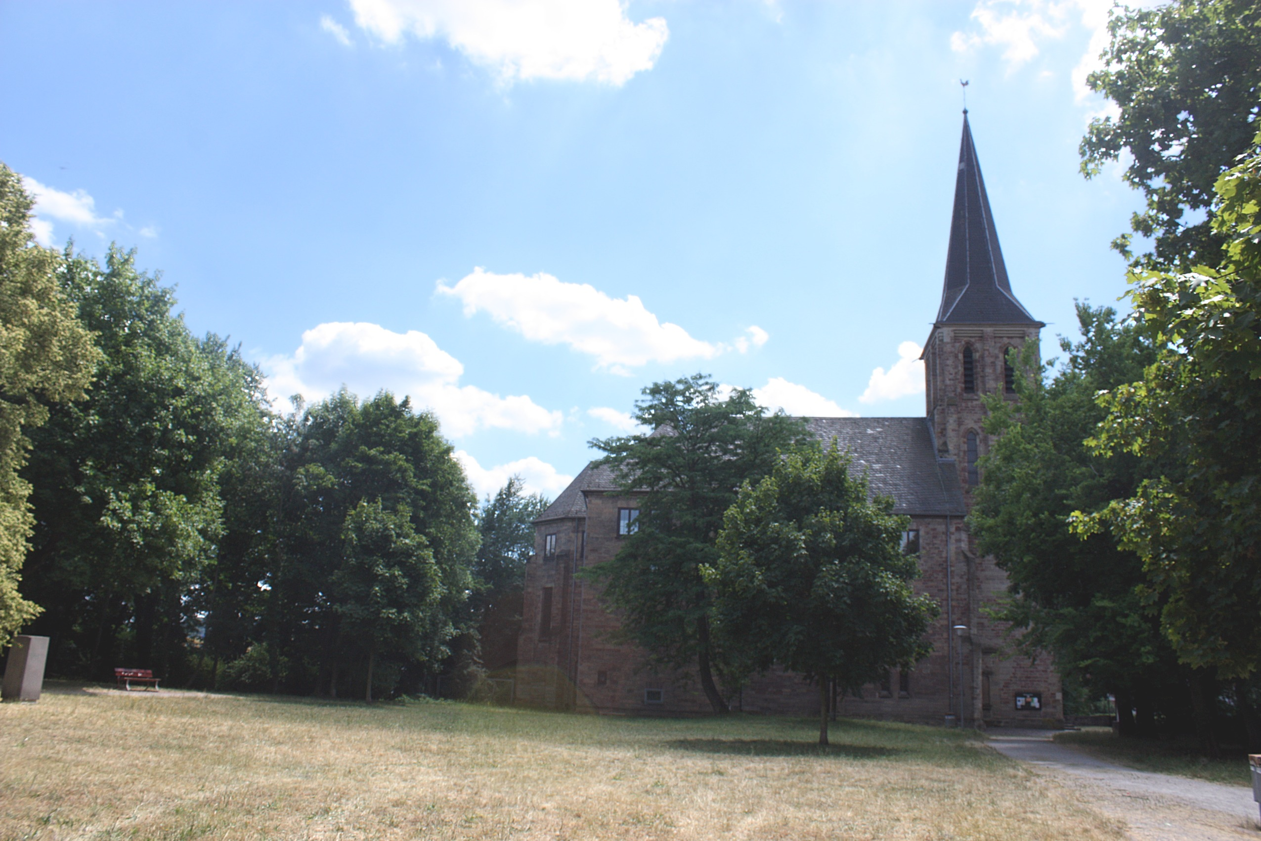 Saarbrücken, the Evangelical Church of Malstatt This is a photograph of an architectural monument. Malstatt 6